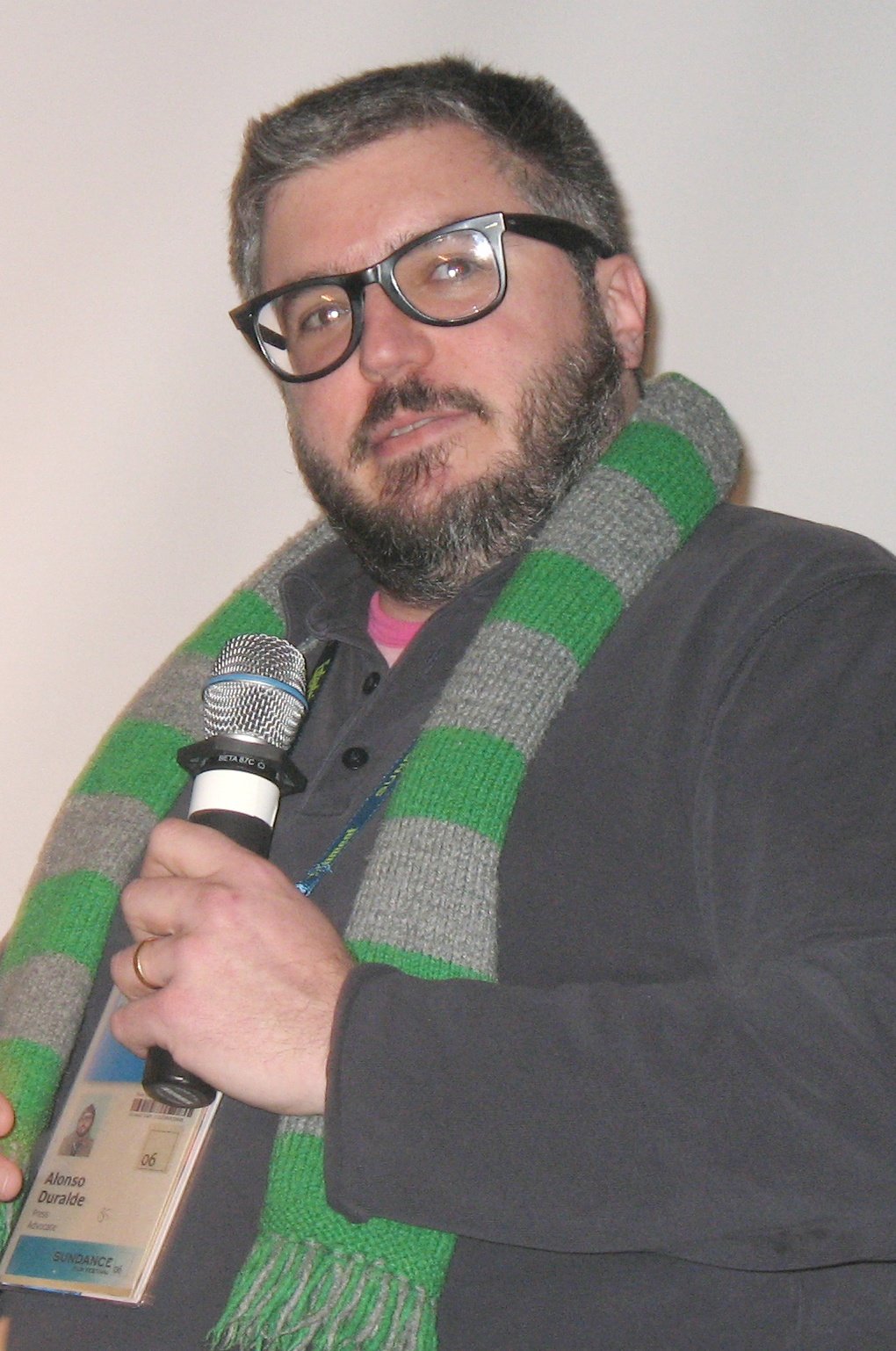 "Advocate" arts and entertainment editor Alonso Duralde moderates a panel with the creators of "The Night Listener" at the Queer Lounge during the Sundance Film Festival.